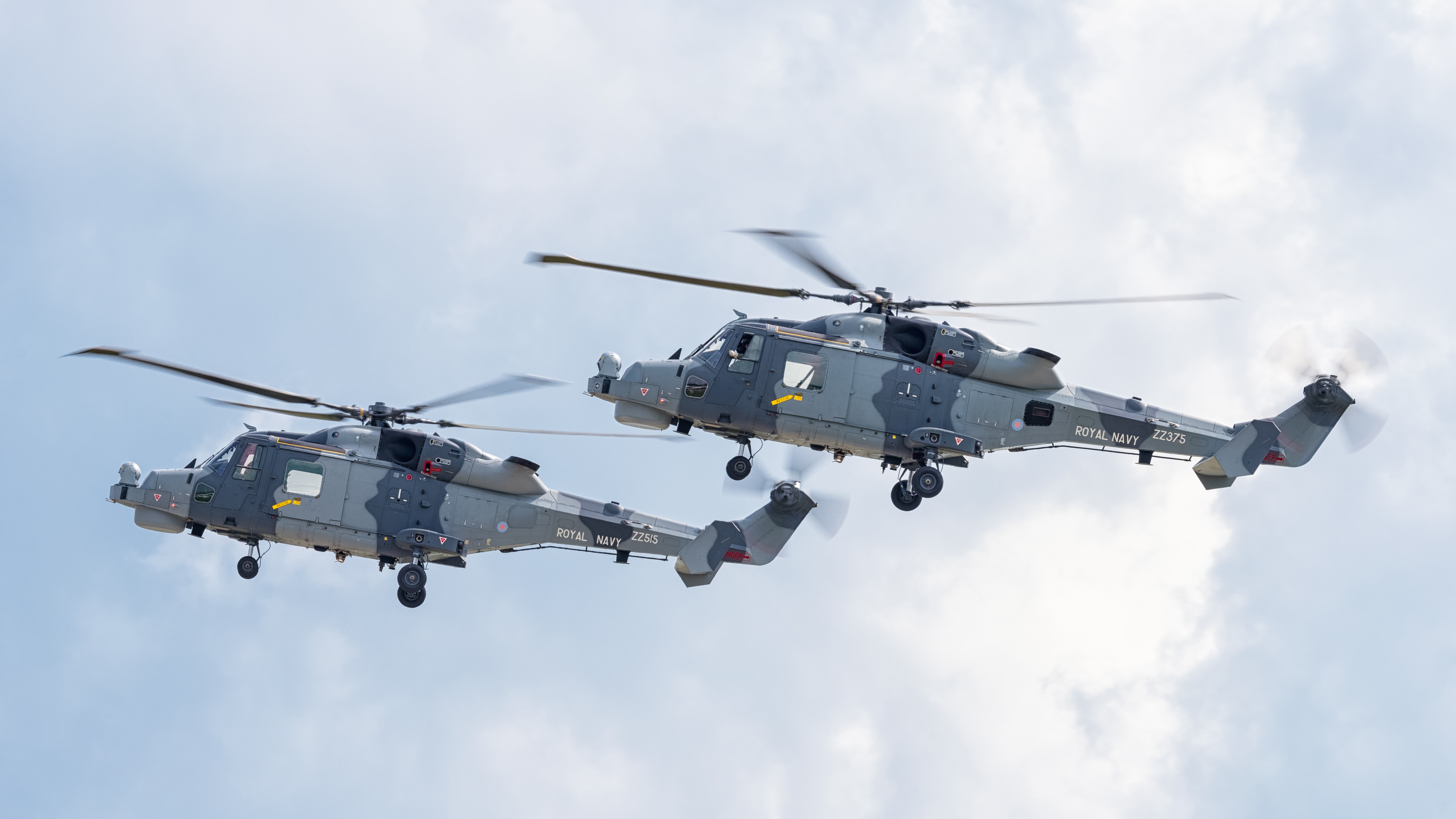 United Kingdom Royal Navy Black Cats display team AgustaWestland AW159 Wildcat HMA2 (reg. ZZ375, cn 494 and reg. ZZ515, cn 520) at ILA Berlin Air Show 2016.